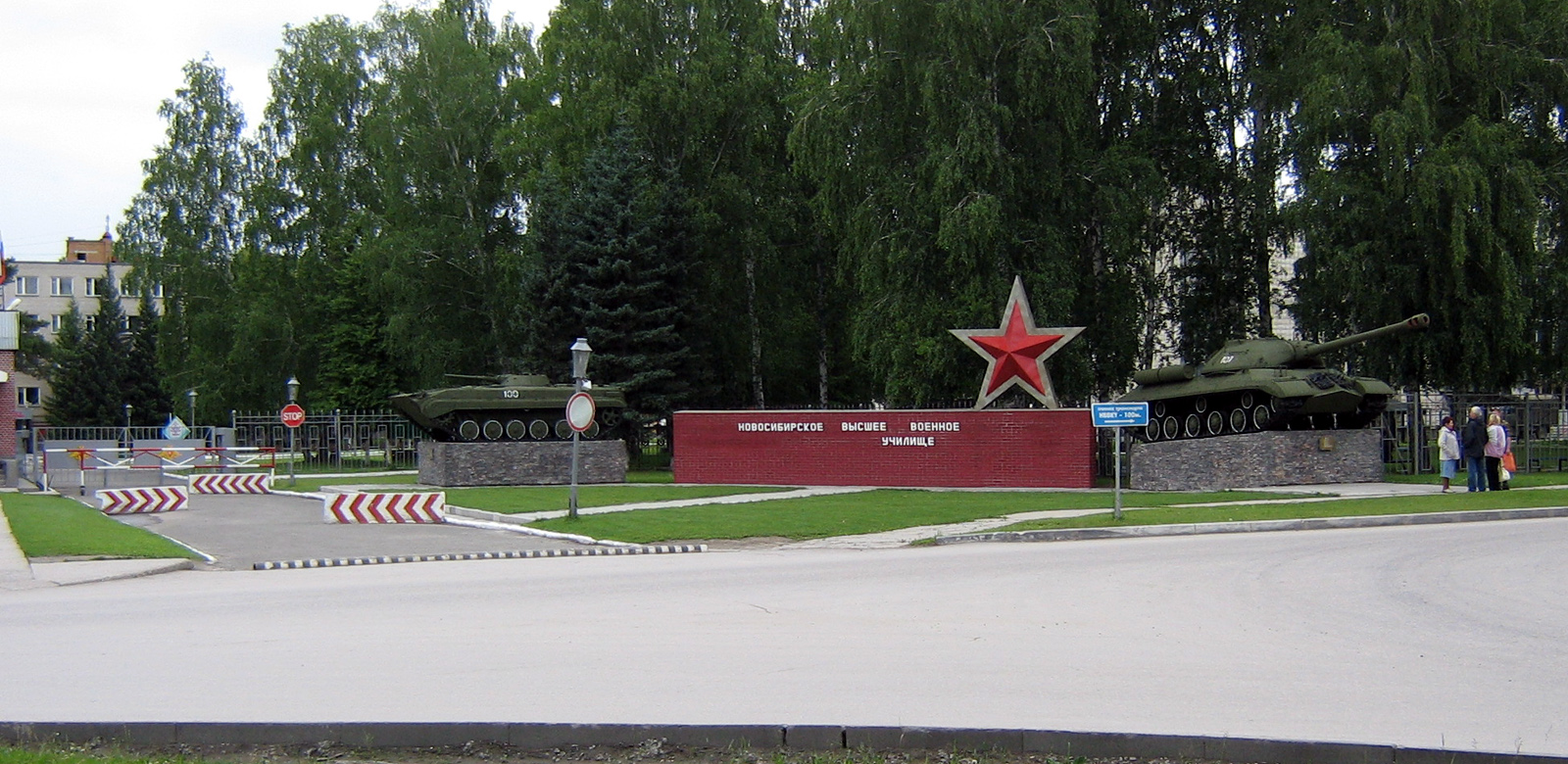 Novosibirsk Military Command Institute.